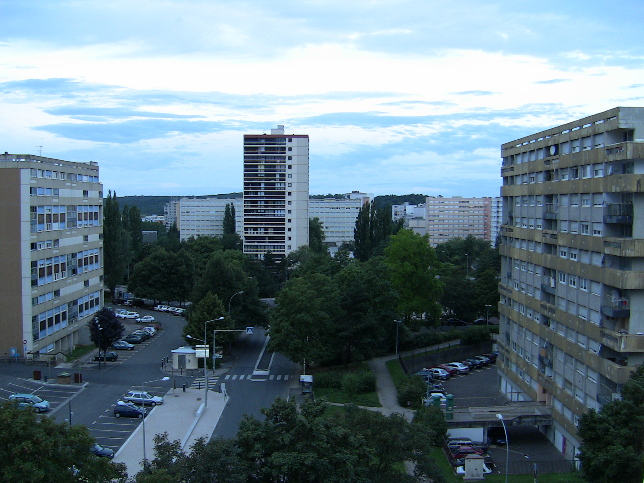 Planoise (France), sector of Franche-Comté